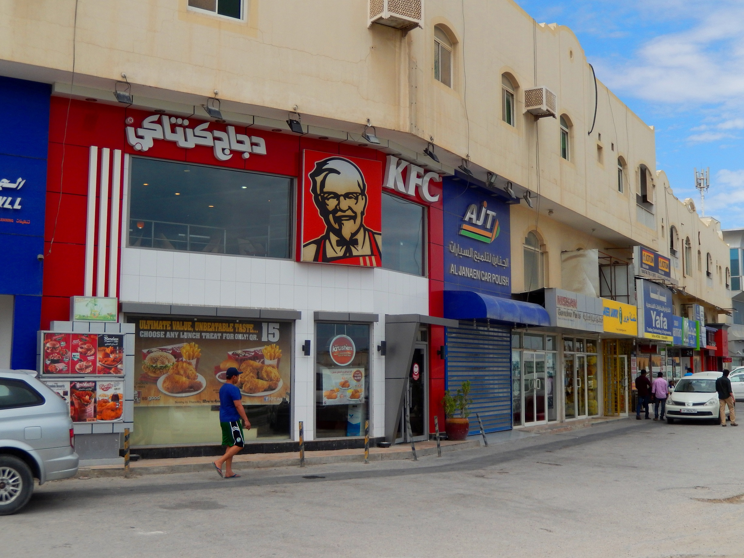 A Kentucky Fried Chicken (KFC) restaurant and shops in Al Khor, Qatar.( calls the road on which these shops are located Al Dhakira Road, but other names for this road may be found elsewhere)